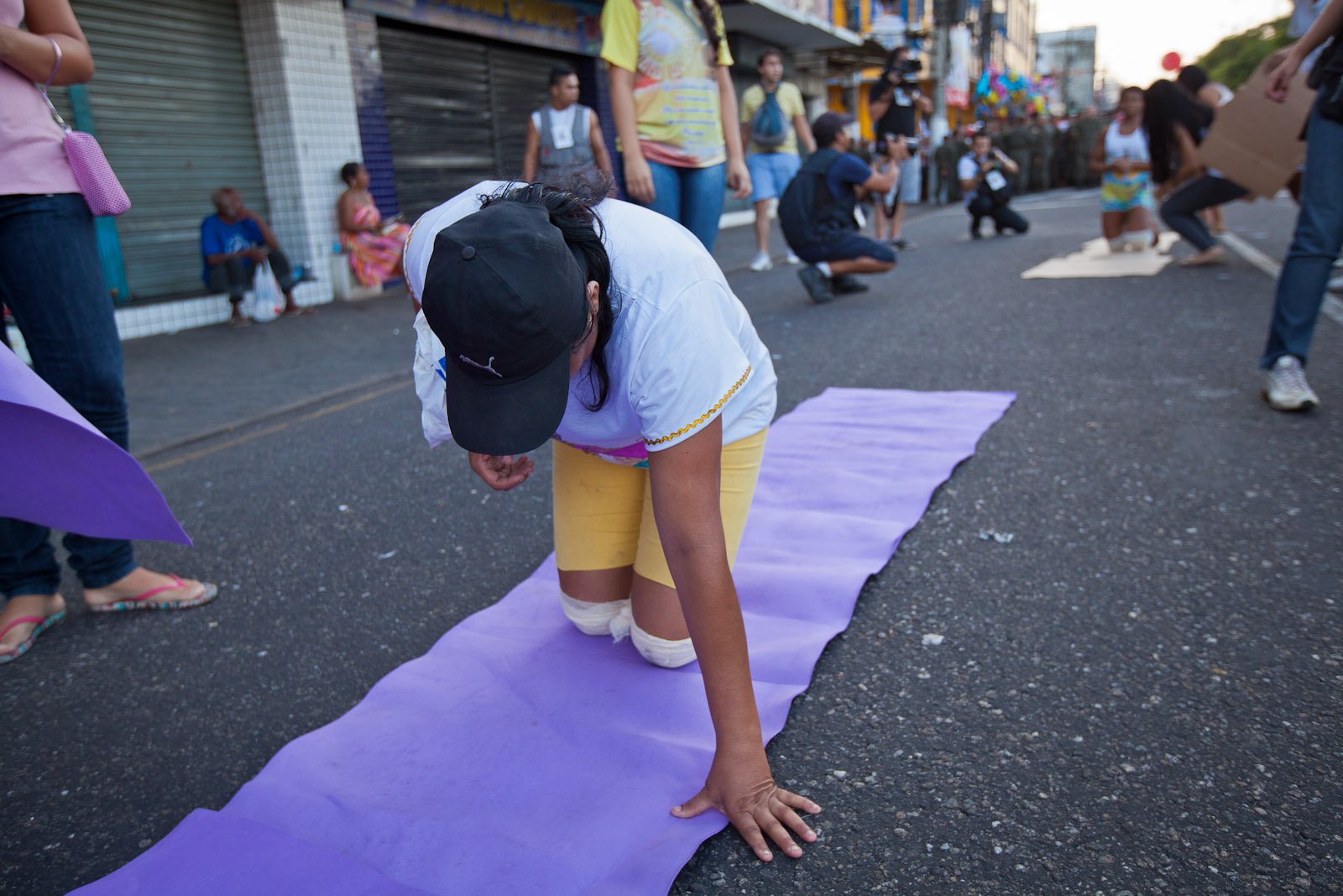 BELEM, PA, BRASIL, 13-10-2013: Fiel "promesseiro" inicia percurso de joelhos durante procissão do Cirio de Nazare. Foto: Zé Carlos Barretta.